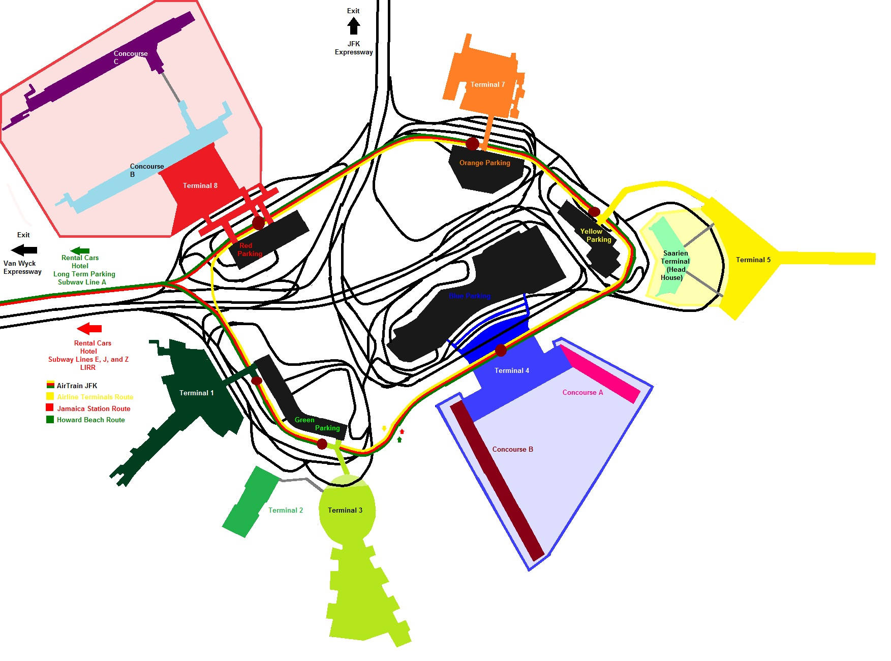 A simple terminal map of JFK airport. Created by me with help from Google Earth and JFK Airport's terminal map.